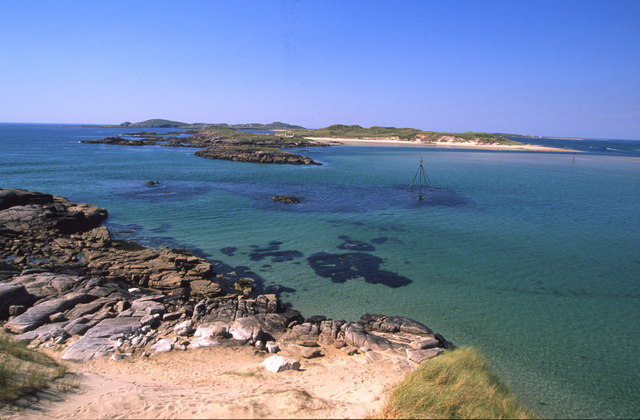 View across Dunmore Strand to Inishinny. The foreground is in the square, the water and the islets are in the square, the island itself (where you see the strip of sand) is just in the next square north.